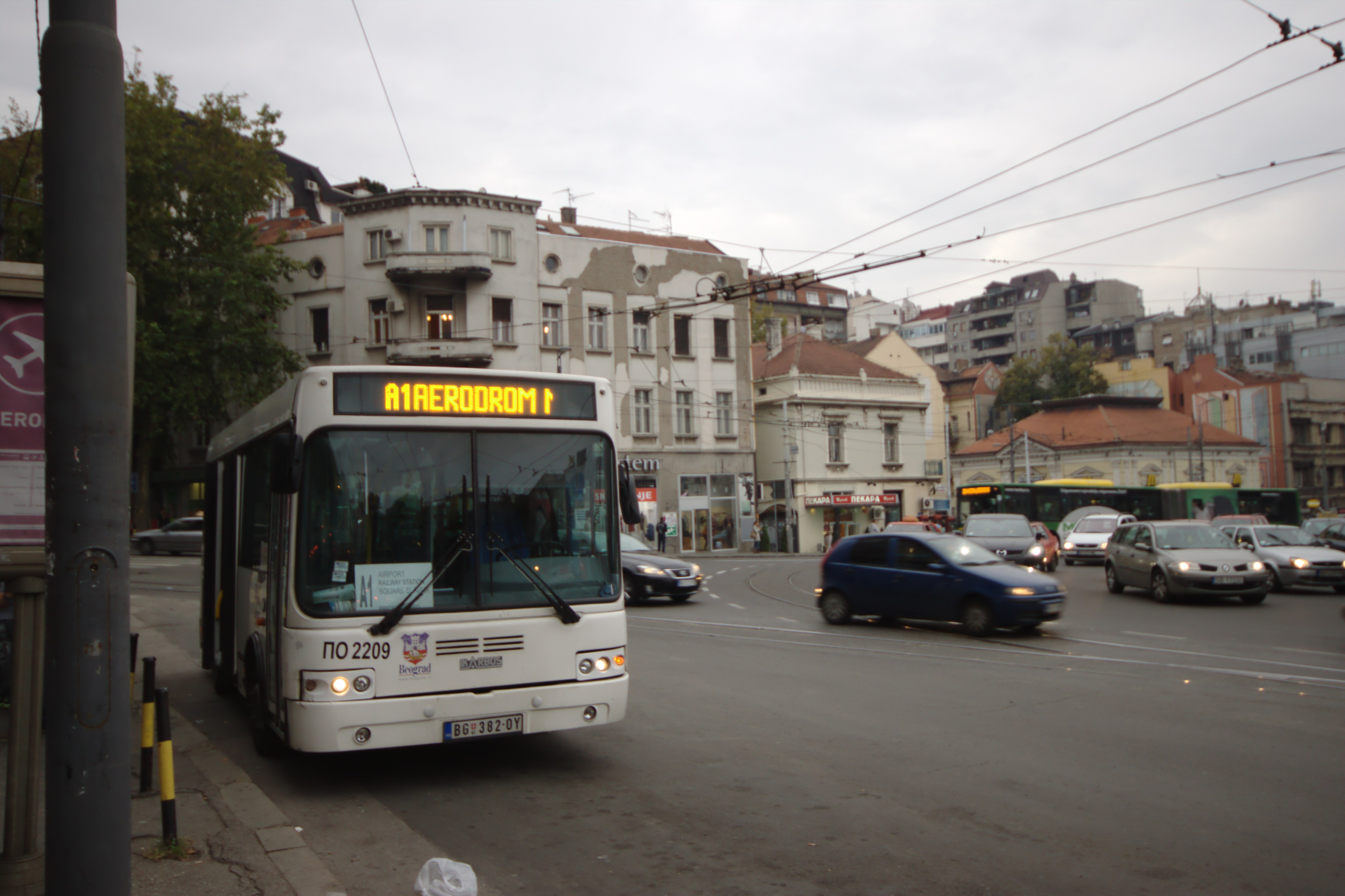 Central part of Belgrade, Serbia